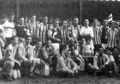 Football team of Grêmio, gaúcho champion.